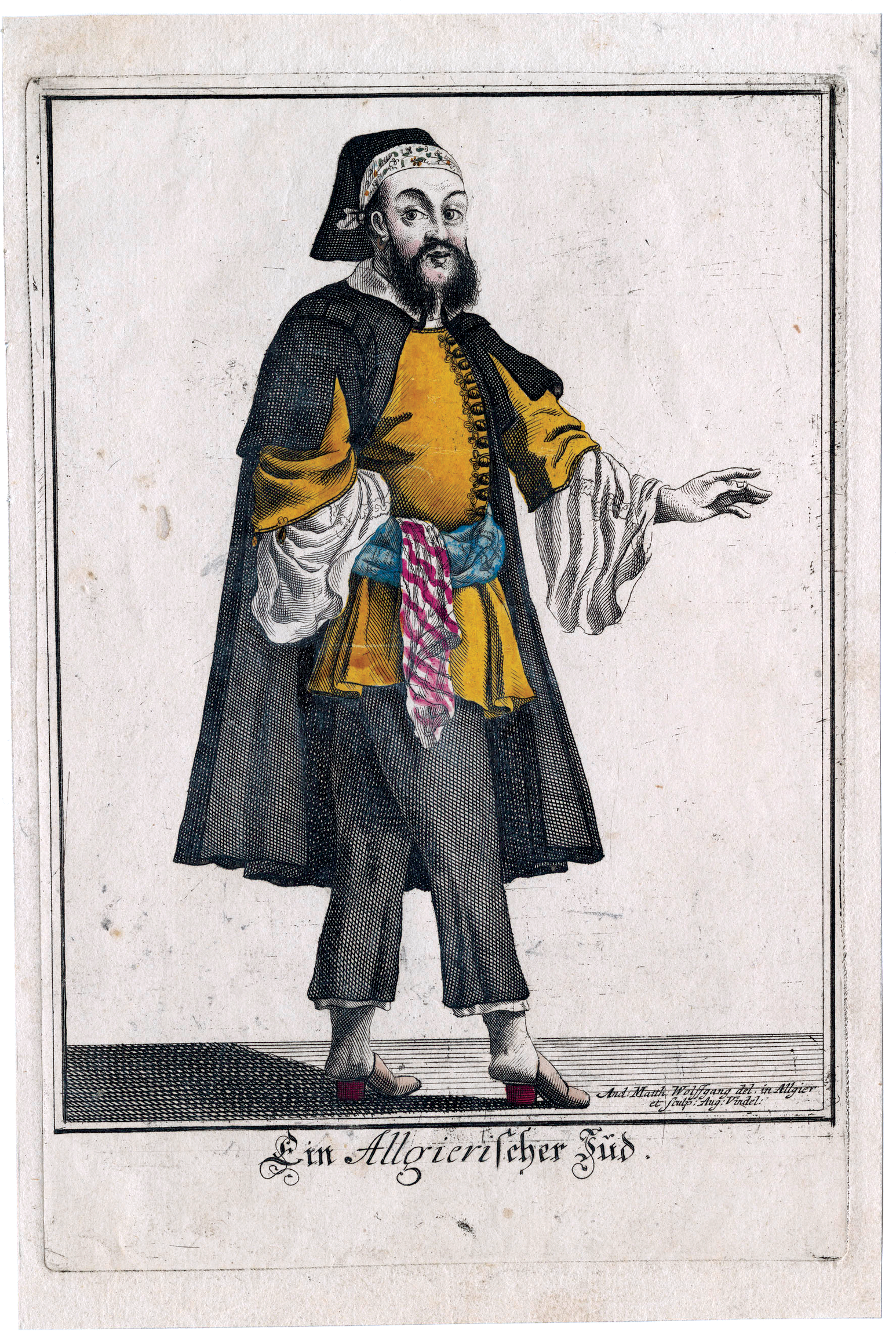 Hand-colored engraving depicting a Jew from Algeria.